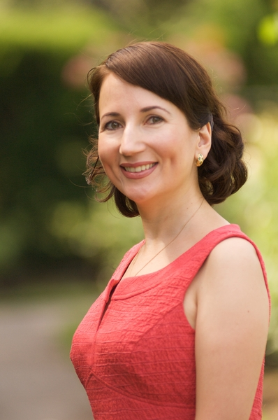 Elena Zoubareva 2009